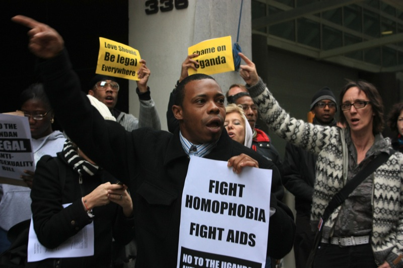 The AIDS Coalition to Unleash Power, a group against AIDS, protests in New York City against the Anti-Homosexuality Bill in Uganda.